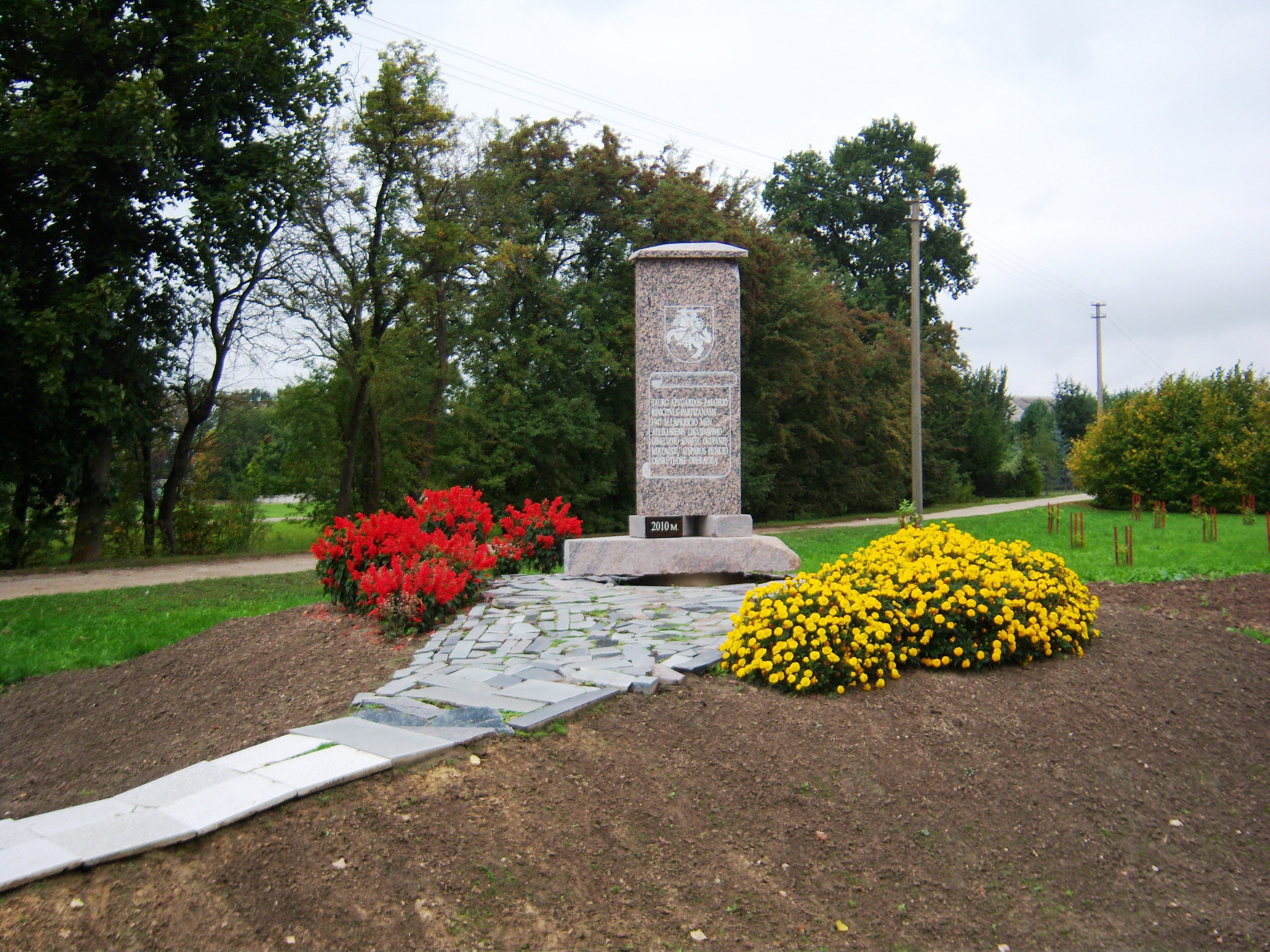 Memorial stone for Tauras district partisans, Opšrūtai, Vilkaviškis District, Lithuania